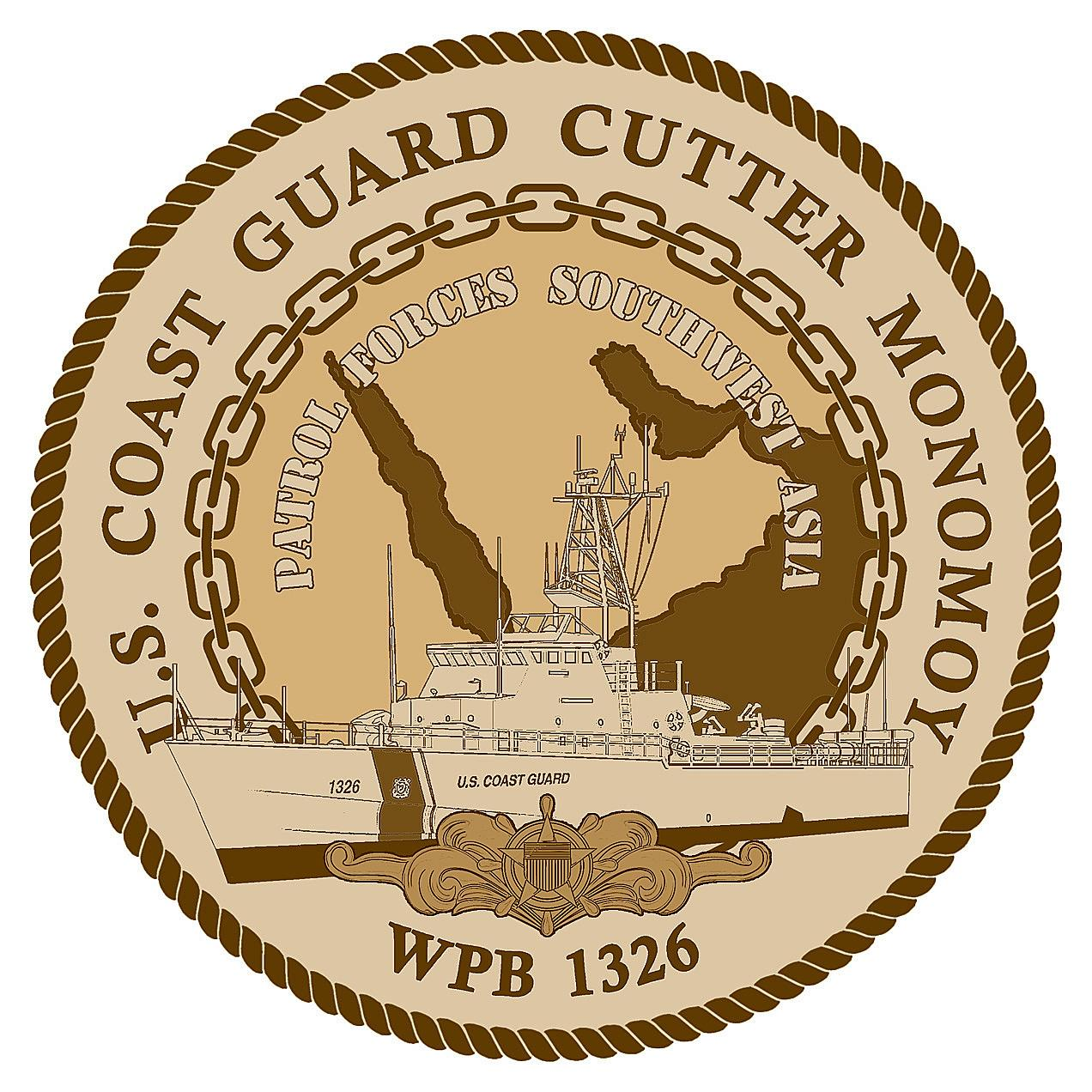 USCGC Monomoy (WPB-1326) unit patch (PATFORSWA variant).